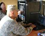 Shows the size of a RIAB used by the US military in Afghanistan Afghan Radio Staff Sgt. Scott F. McElroy, (left), of Canton, Ga., and Sgt. Angelo O. Bravo of Jasper, Ga., both 1st Squadron, 108th Cavalry Regiment communications noncommissioned officers, finalize the setup of the 'Radio in a Box' broadcast stations at the Afghan border police 6th Kandak headquarters in Shinwar district. The new media program is part of the International Security Assistance Force counterinsurgency process and will be managed entirely by the Afghan people. Photo Credit: Feb 4, 2010